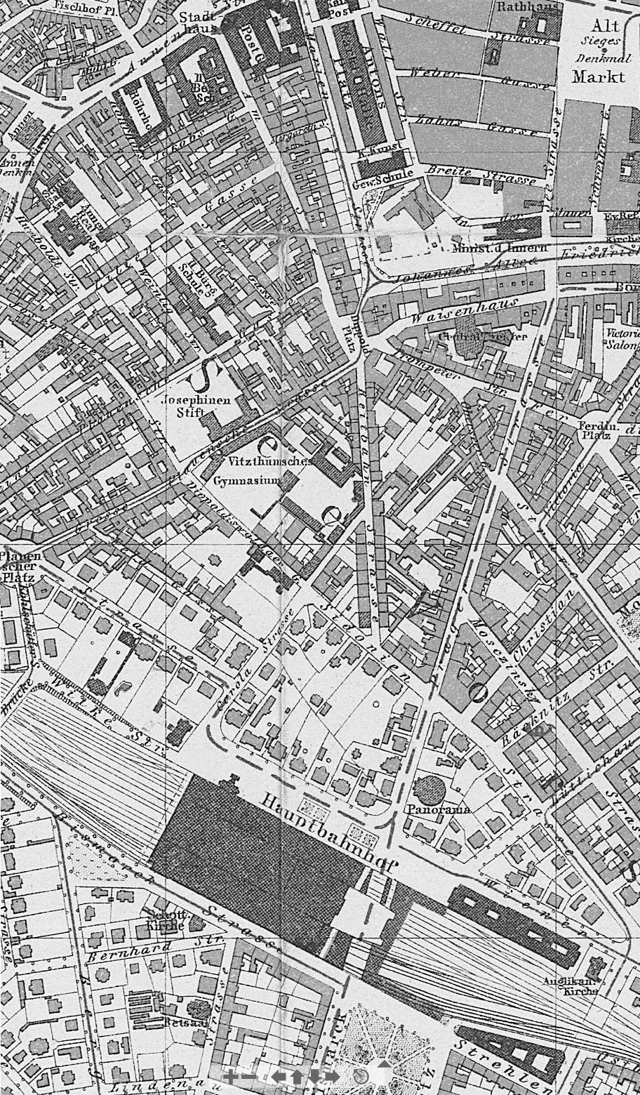 map detail showing location of Dresden main station in 1900